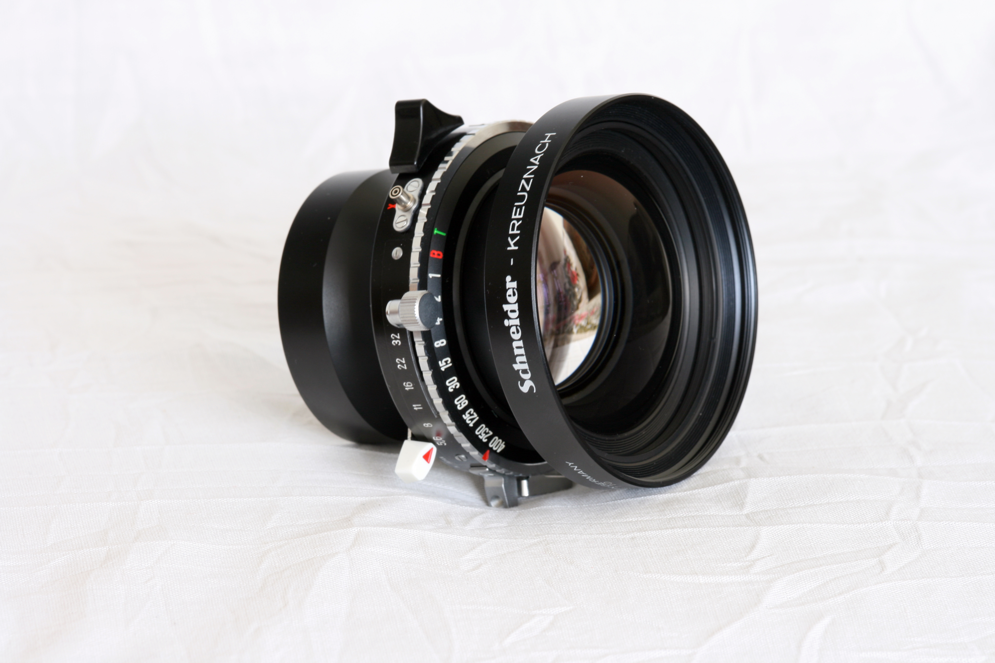 Schneider Symmar S 210mm large format lens